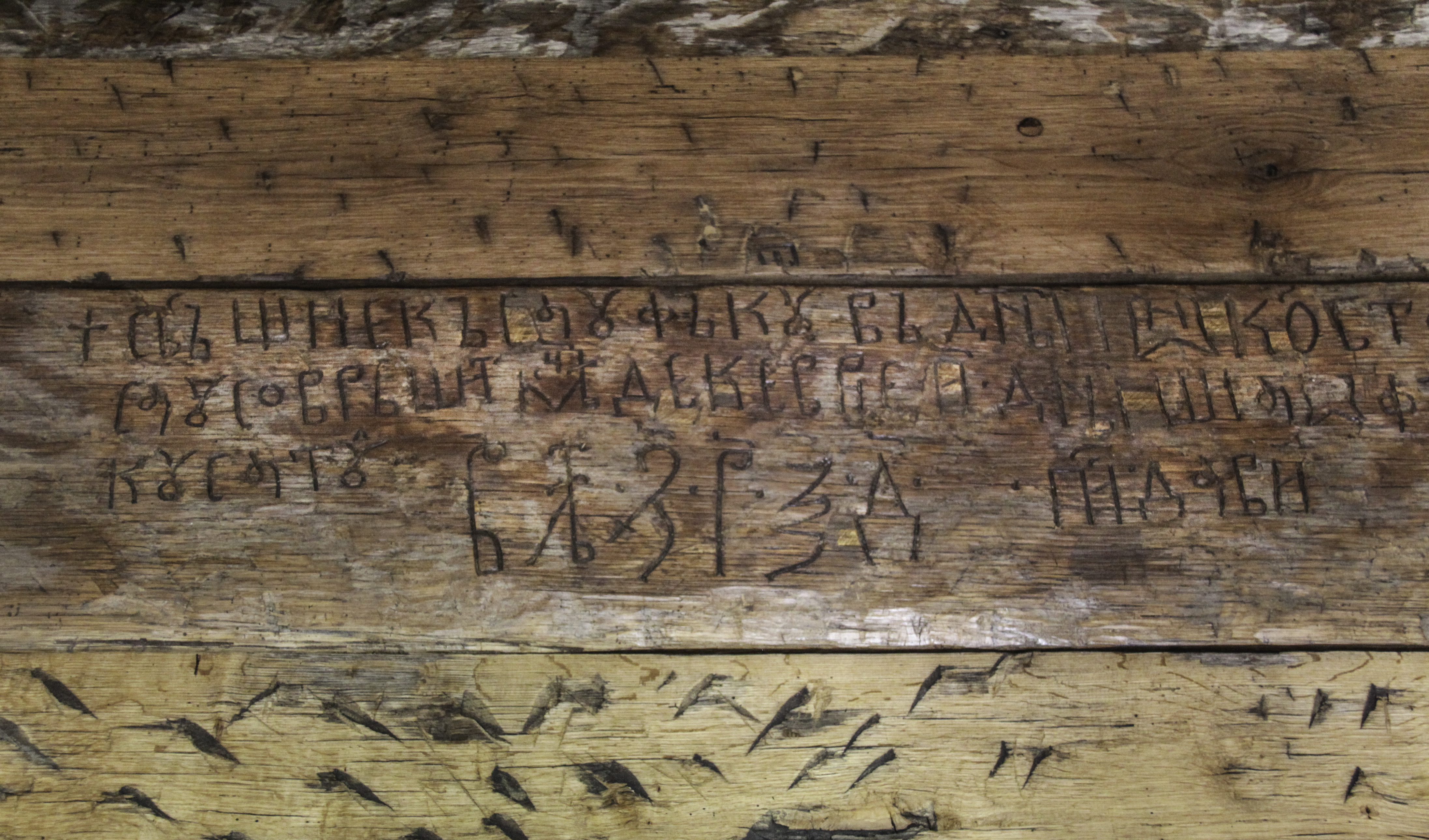 Wooden church in Anghelești, Vâlcea county, Romania